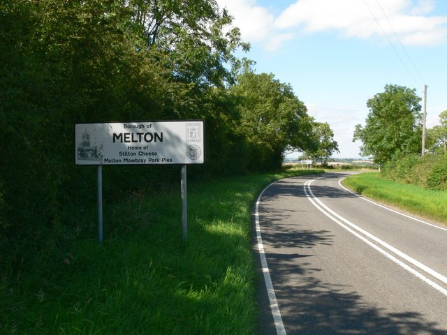 Entering the Borough of Melton Home of Stilton Cheese and Melton Mowbray Pork Pies. Looking along Thimble Hall Road.